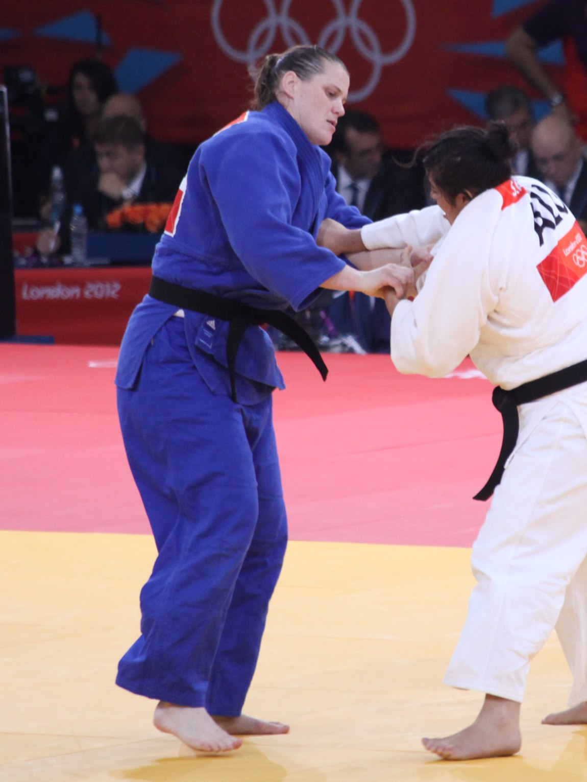 Olympic Judo London 2012